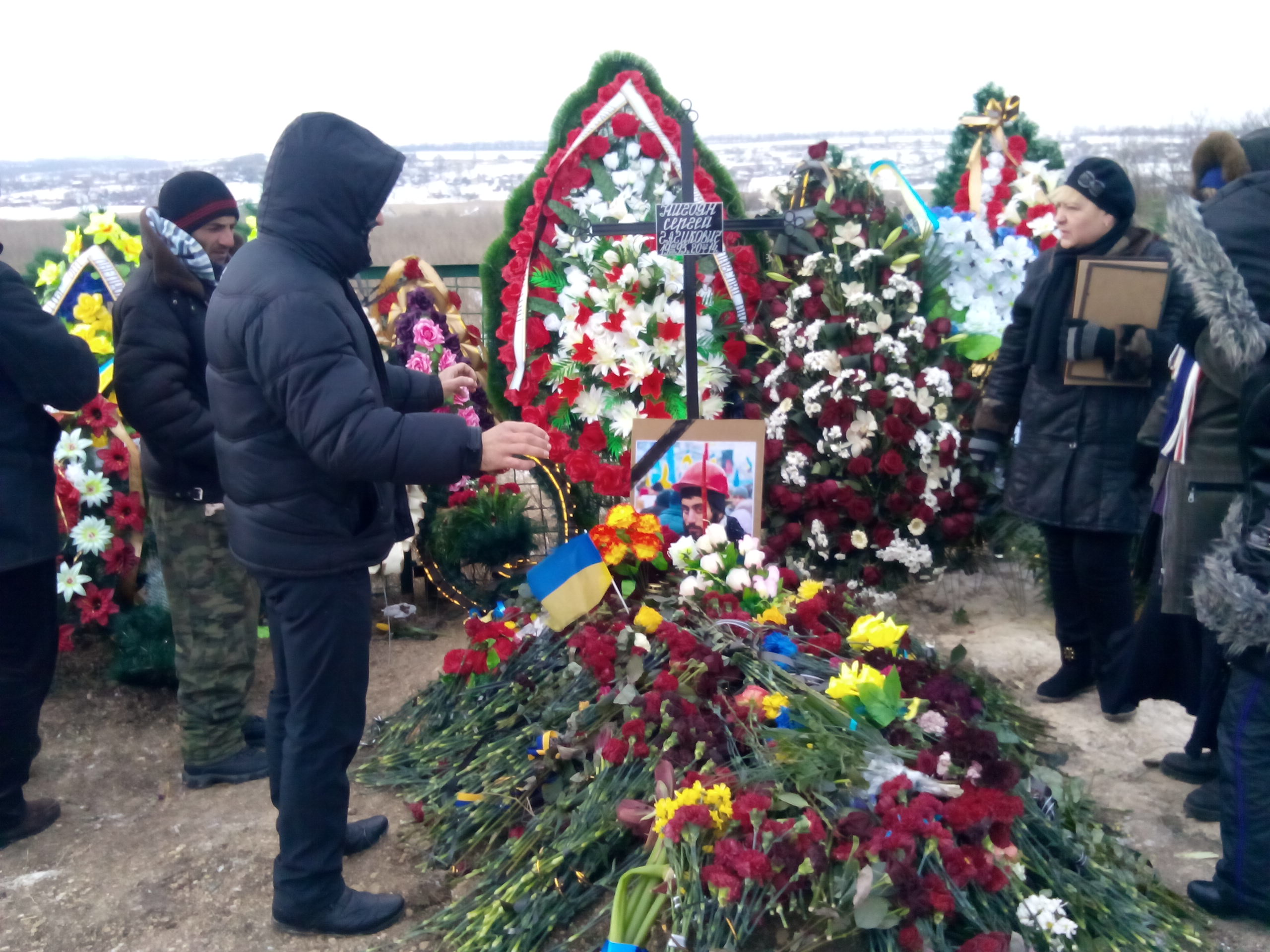 Grave of Serhiy Nigoyan in Bereznuvativka, Dnipropetrovsk Oblast, on the next day after the funeral